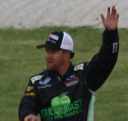 NASCAR driver T. J. Bell during driver's introductions at the 2012 Sargento 200 Nationwide Series race at Road America.